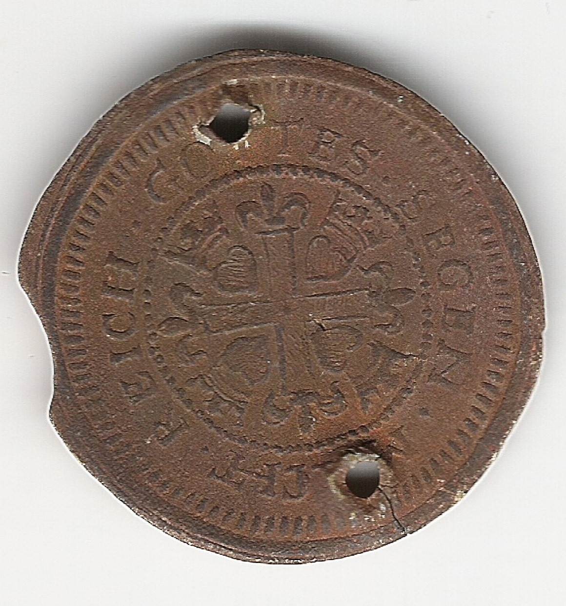 Old coin found in Tuhovishta's Necropolis